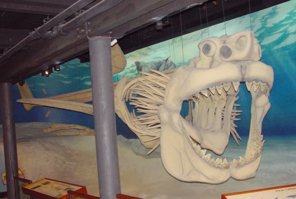 Megalodon skeleton on display at the Calvert Marine Museum